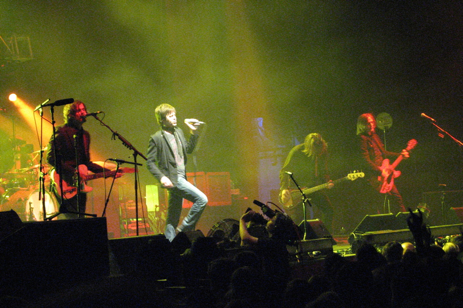 A photograph of Australian rock band Powderfinger performing at a September 2007 tour.